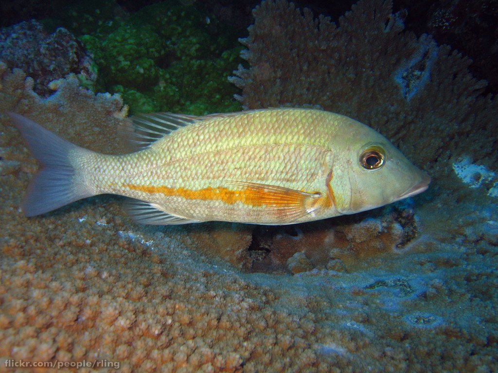 Yellow Striped Emperor (Lethrinus obsoletus). Cod Hole, Ribbon Reefs, Great Barrier Reef